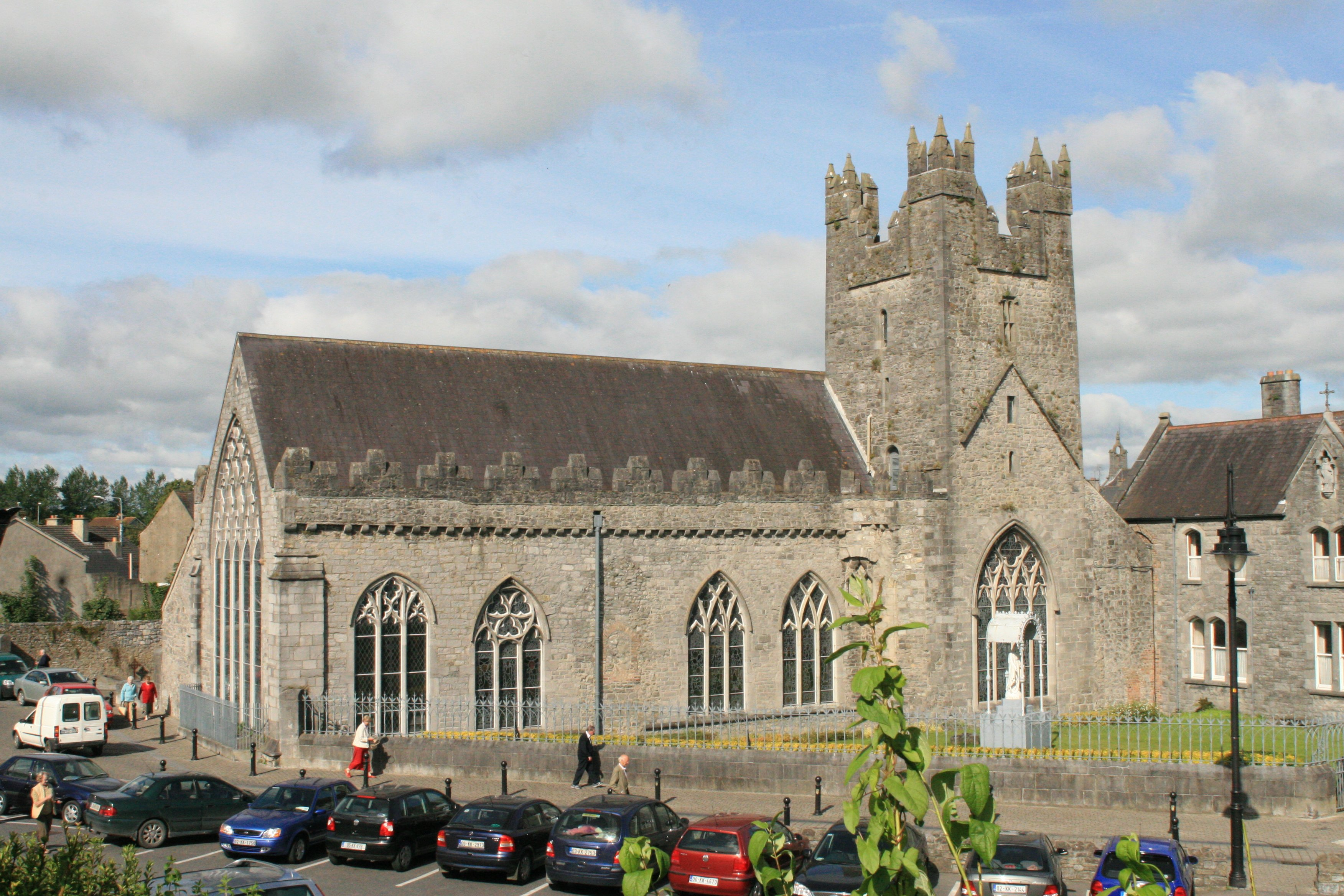 South-east view of the Dominican Black Abbey